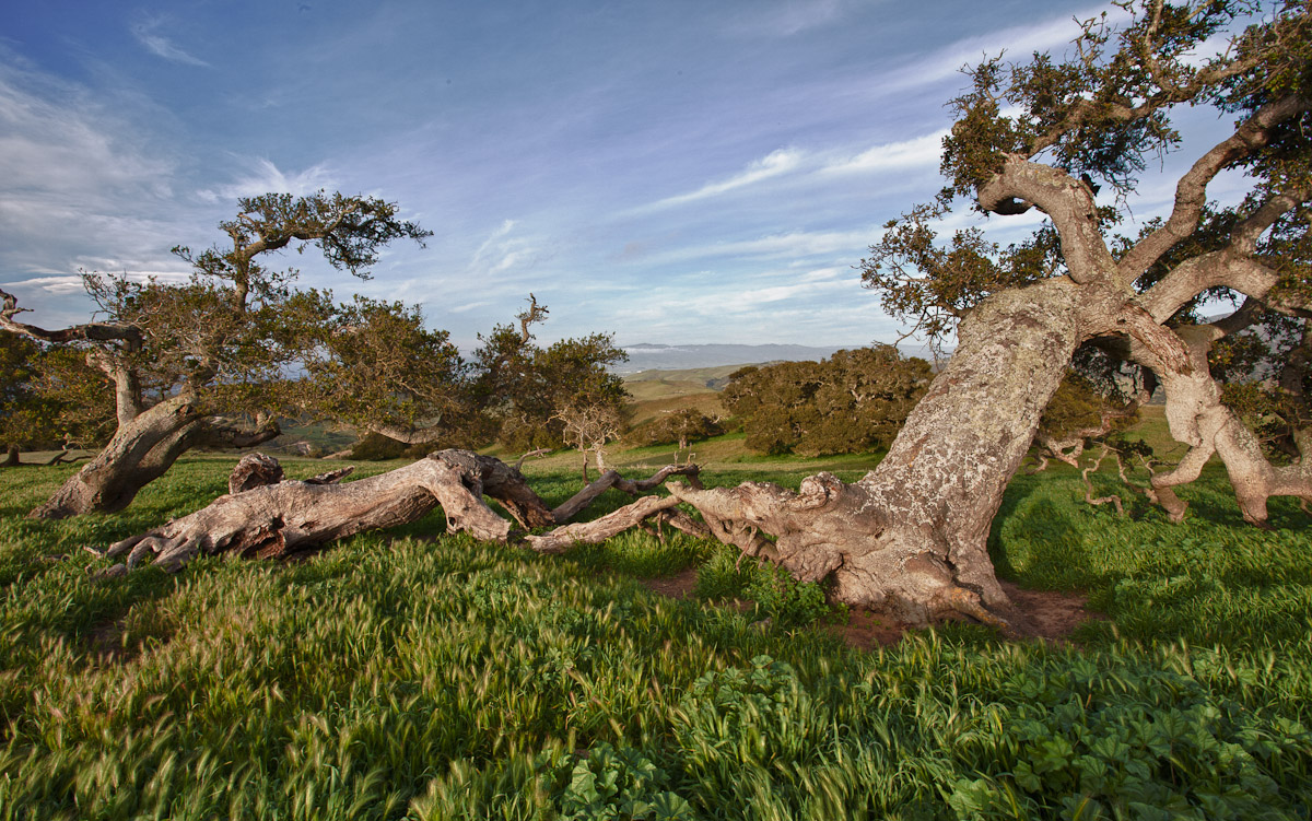 The Fort Ord National Monument holds some of the last undeveloped natural wildlands on the Monterey Peninsula. Located on the former Fort Ord military base, the Bureau of Land Management (BLM) protects and manages 35 species of rare plants and animals along with their native coastal habitats. Habitat preservation and conservation are primary missions for the Fort Ord Public Lands but there are also more than 86 miles of trails for the public to explore on foot, bike or horseback. For more information please visit: Photo: Bob Wick, BLM California